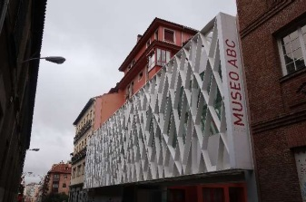 Cercha metálica vista desde la calle